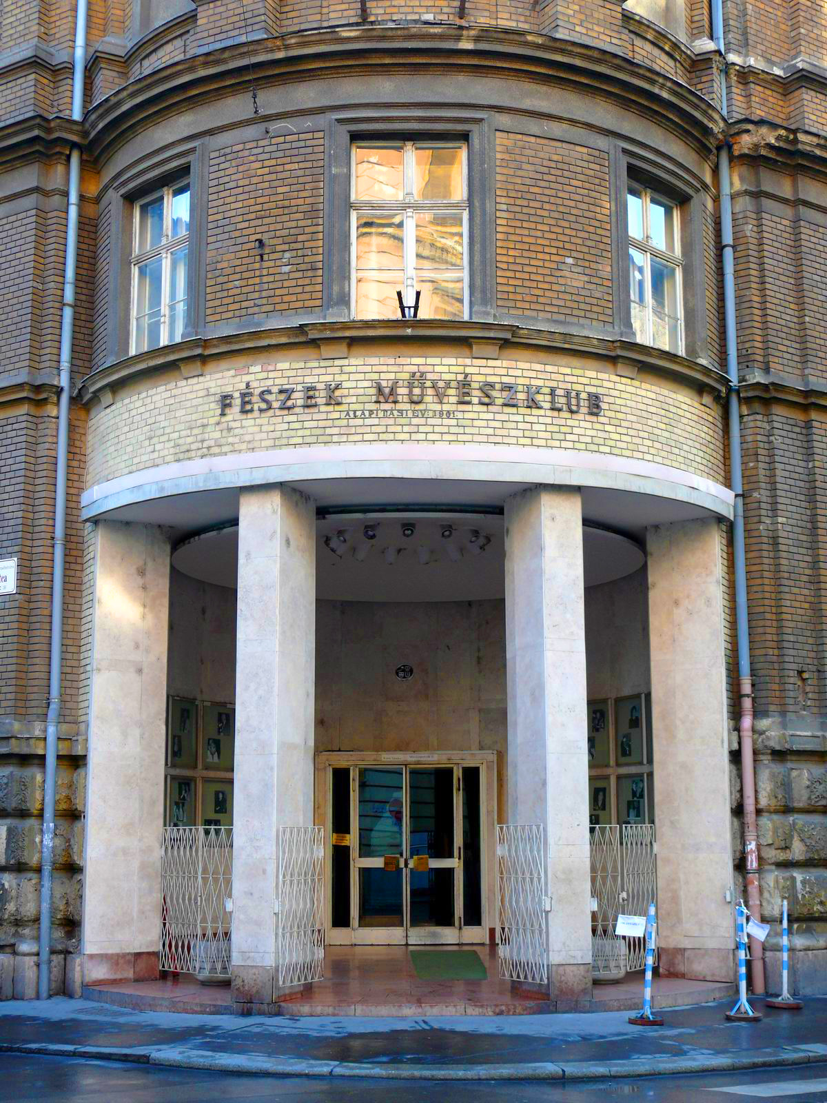 The access of the Fészek Art Club in Budapest